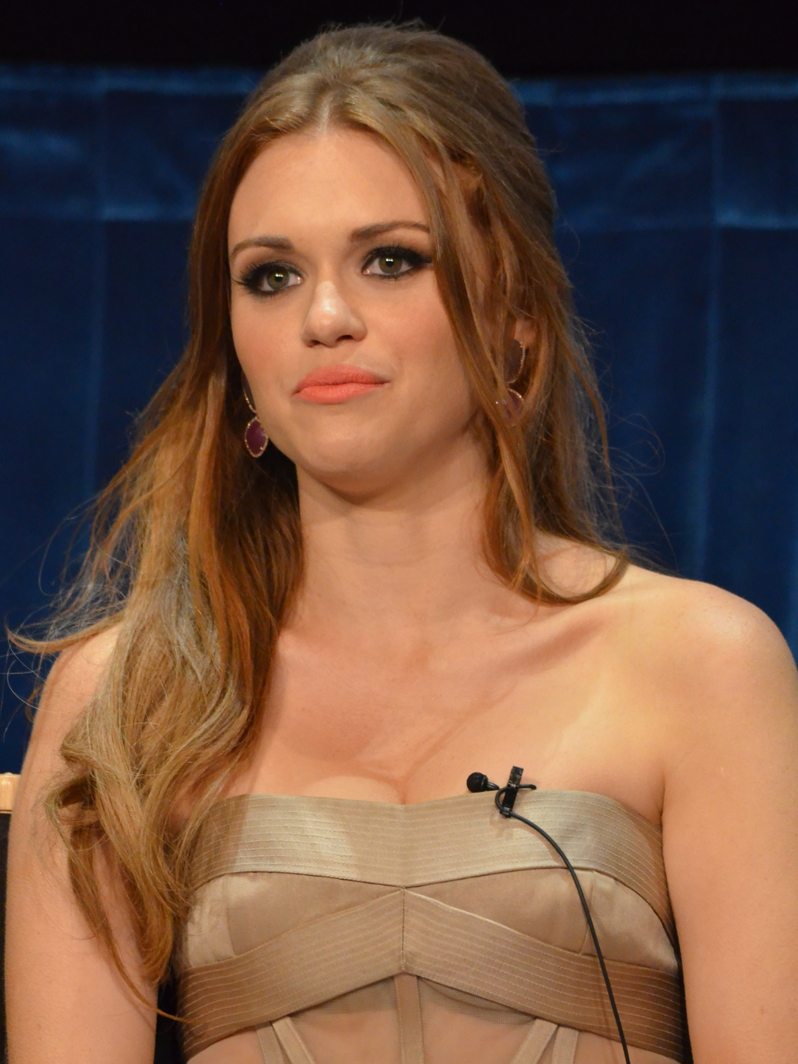 Holland Roden On Stage @ Paley: Teen Wolf 2012.